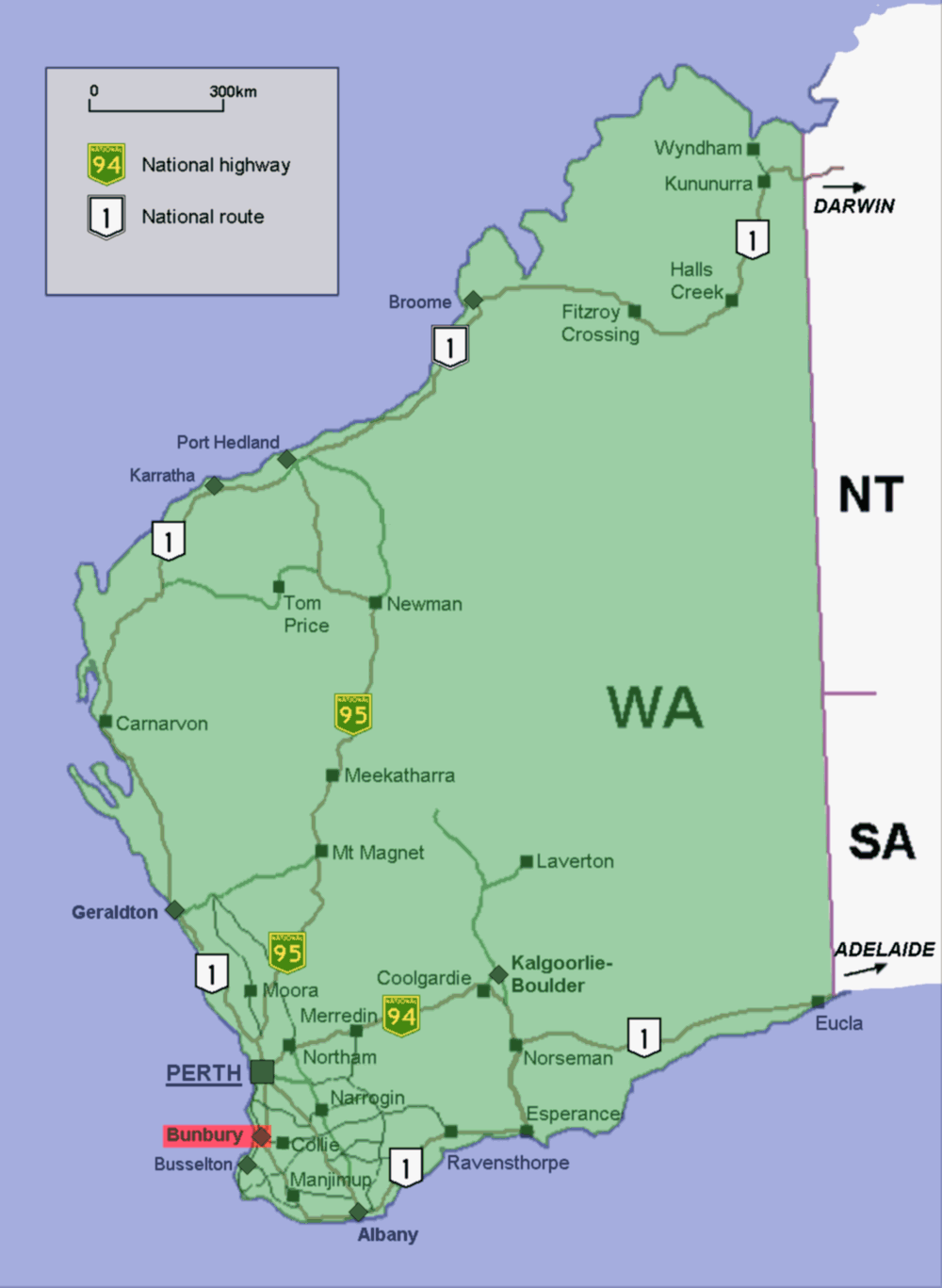 Shows location of w: Bunbury, Western Australia marked in red in the Australian state of Western Australia.